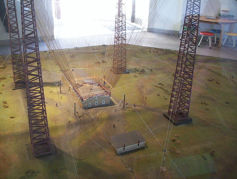 A model of the transmission towers used by Guglielmo Marconi at his first transatlantic wireless station. Photographed at the Marconi Museum at the Marconi National Historic Site of Canada, in Glace Bay, Nova Scotia, Canada, by the contributor on 20 July 2005.